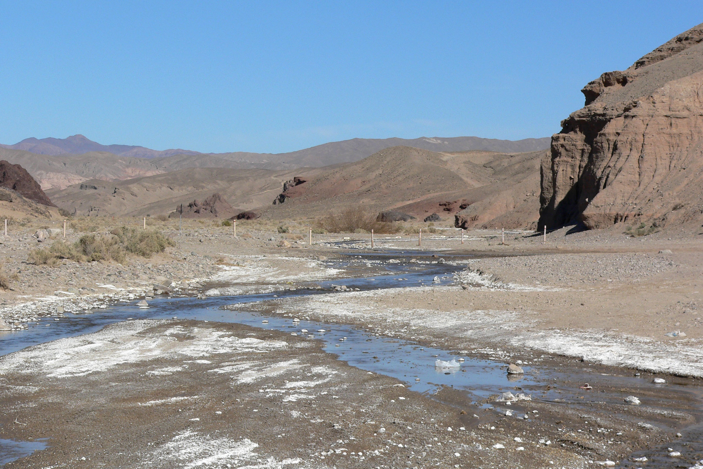 Amargosa River looking upstream near its crossing of the access road to Dumont Dunes, Death Valley area, southern California